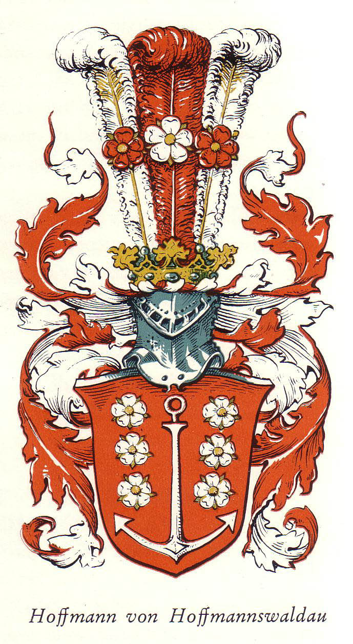 german family Hoffmann von Hoffmannswaldau